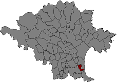 Location of l'Armentera in Alt Empordà